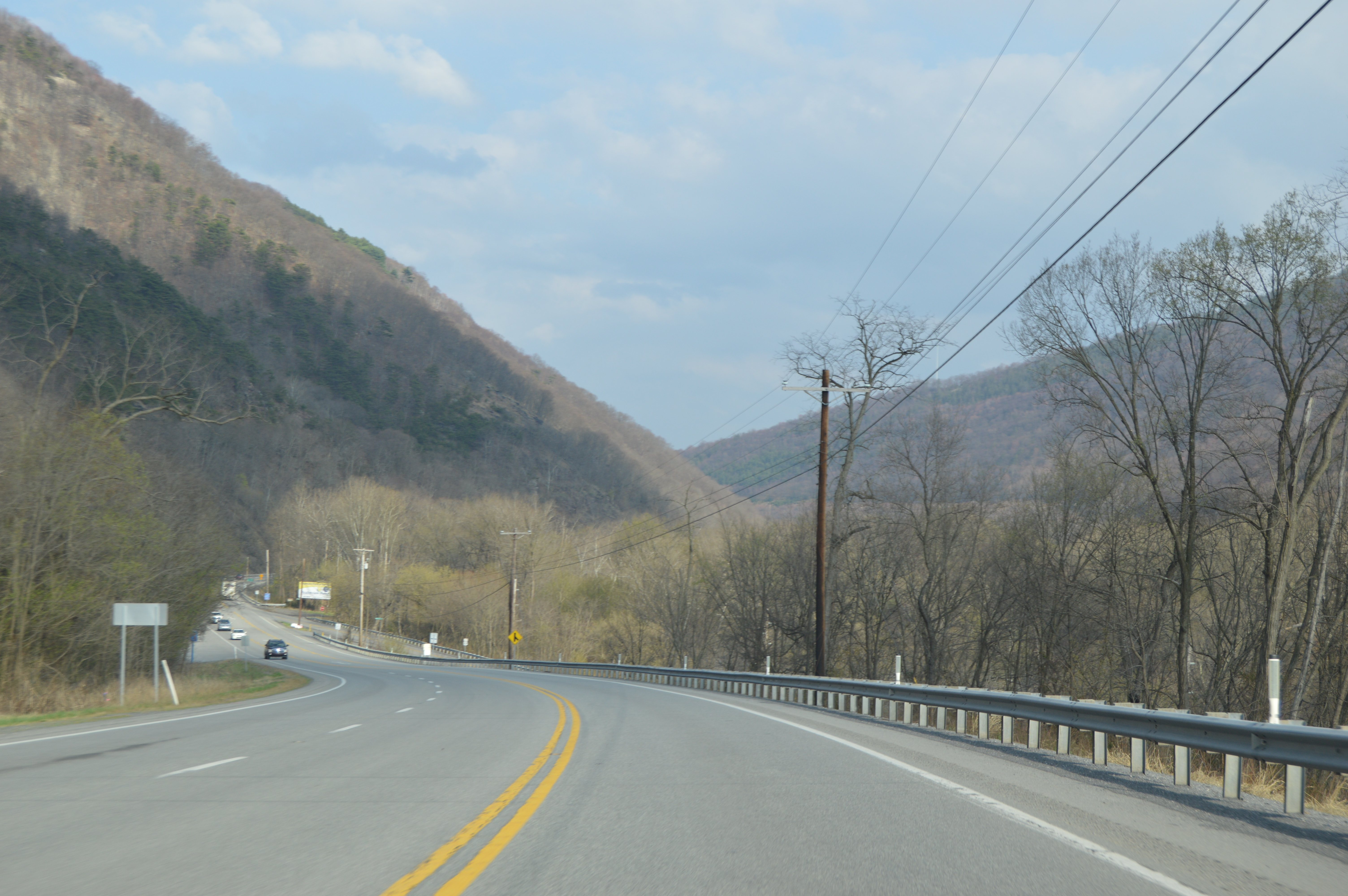 Looking eastward along U.S. Route 22 in Jacks Narrows, the water gap by which the Juniata River flows through Jacks Mountain in far southern Brady Township, Huntingdon County, Pennsylvania, United States.